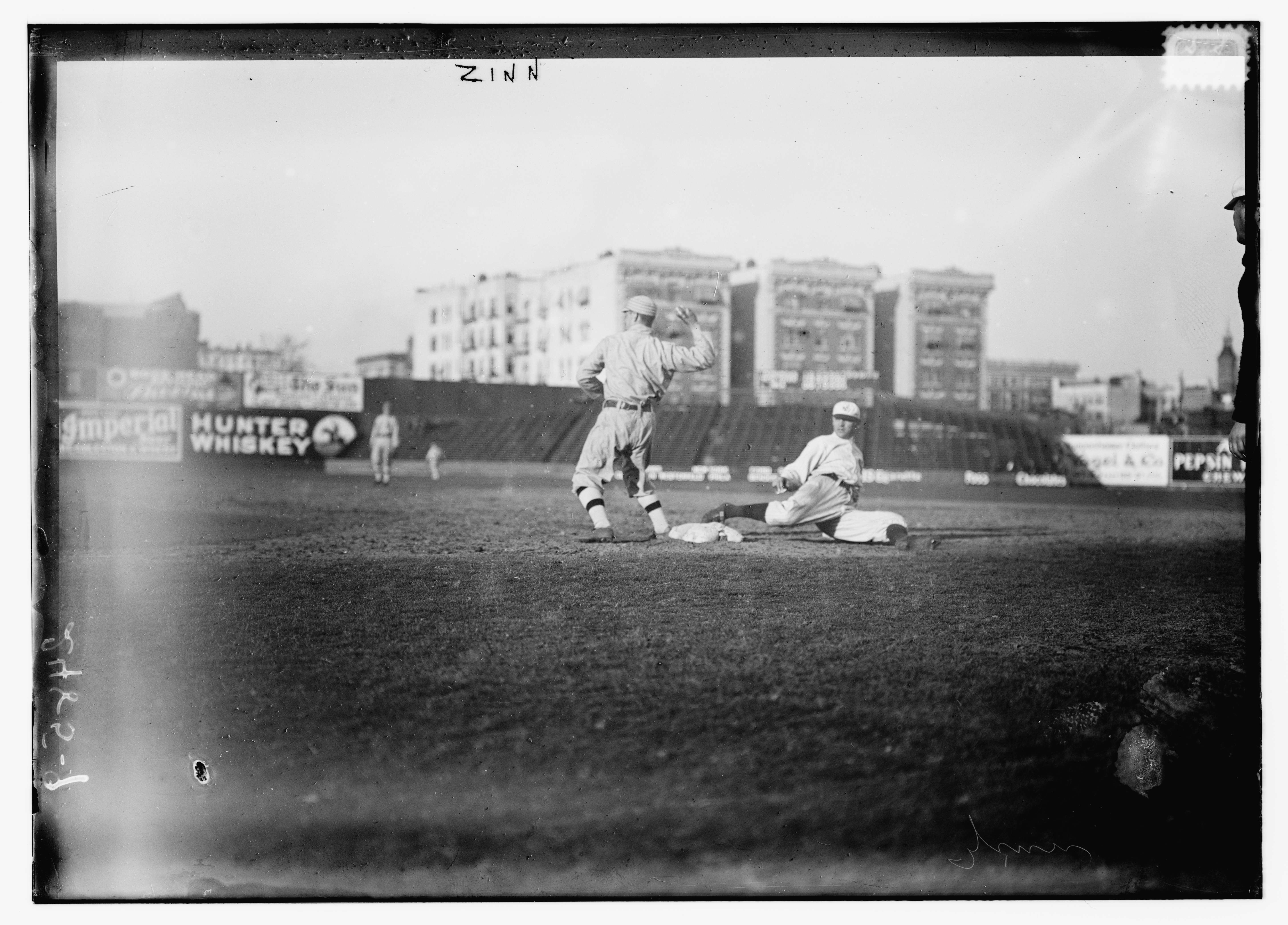 Hilltop Park, first home of the New York Highlanders/Yankees, in 1912. The three buildings above the bleachers still stand today on 168th Street and Broadway; their coordinates are 40.841368826267875N 73.94013941287994W